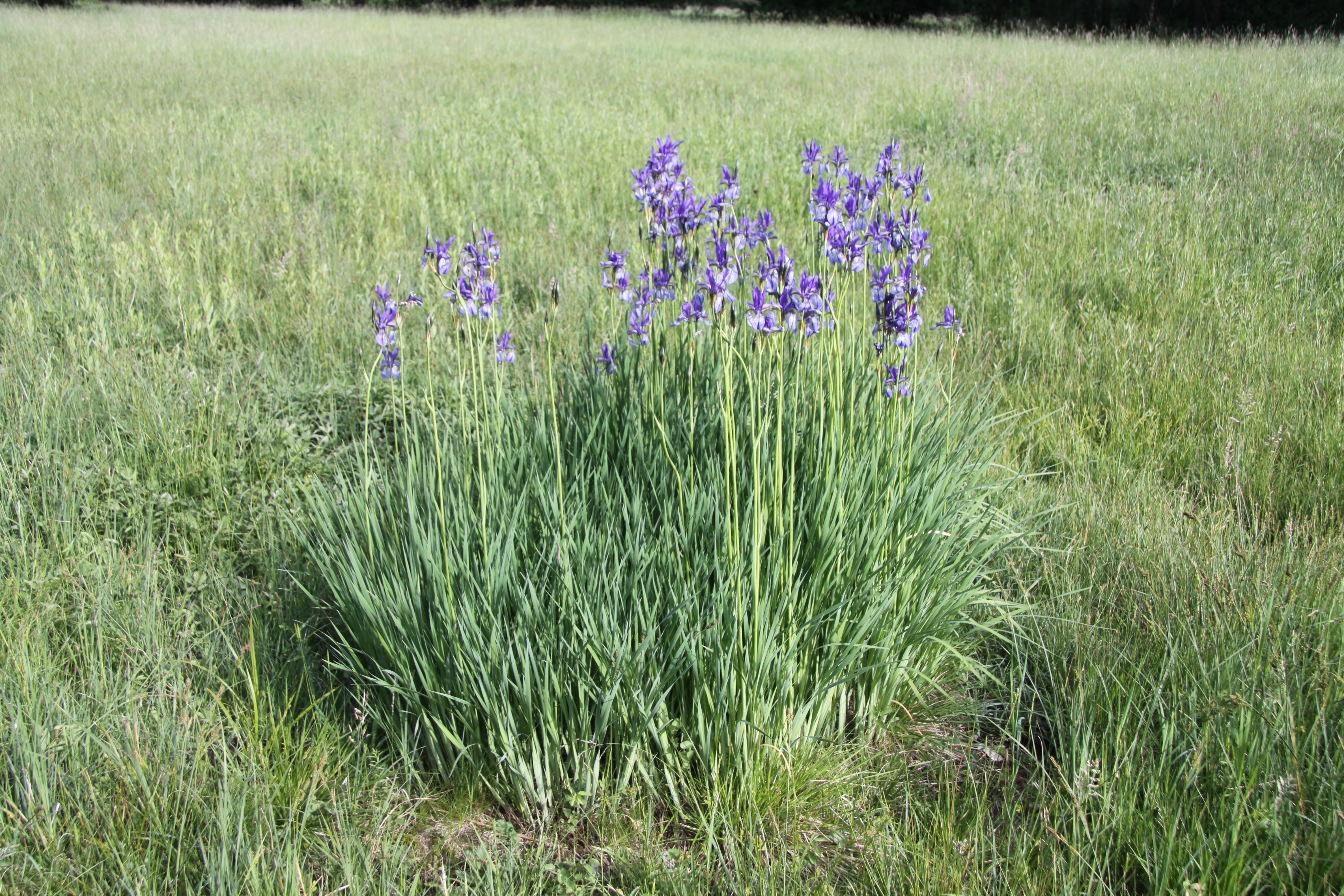 Iris sibirica in natural monument Pančice-V řekách near Lhenice, Prachatice District, Czech Republic - Google Maps - Google Earth